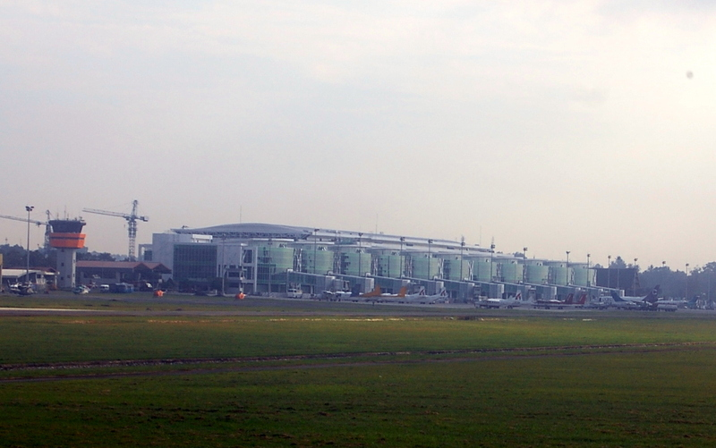 Current View of Sultan Aji Muhammad Sulaiman Airport in Balikpapan